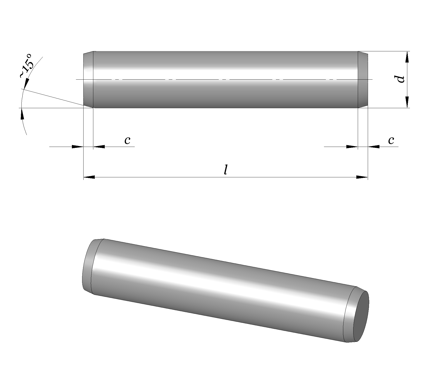 Side- and 3D-view of a parallel pin (dowel pin) according to DIN EN ISO 8734:1997.